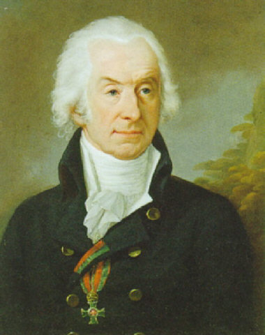 Franz Anton Edler frhr von Zeiller, Austrian jurist and courtier, and knight of the Royal Hungarian Order of Saint Stephen, from 1810. Image in public domain due to age